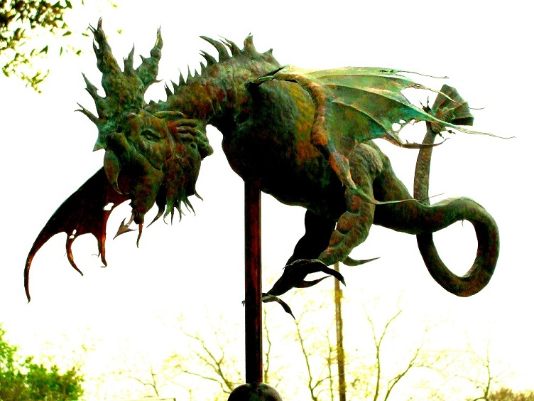 Copper weathervane with patina